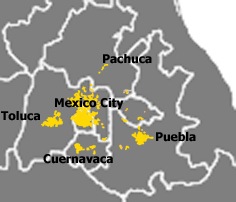 Megalopolis of Central Mexico, as described by PROAIRE